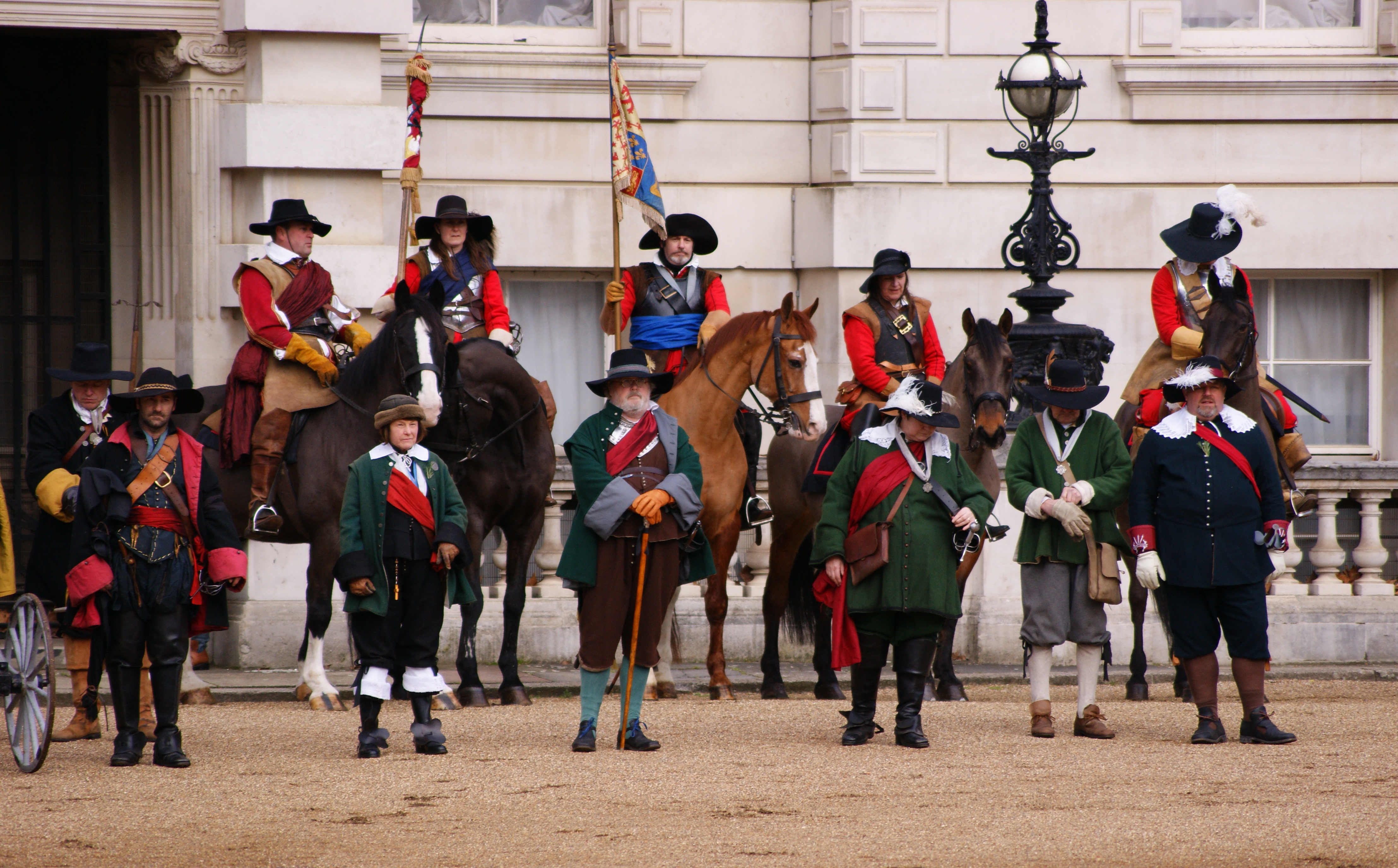 English Civil War March - by John Seaman